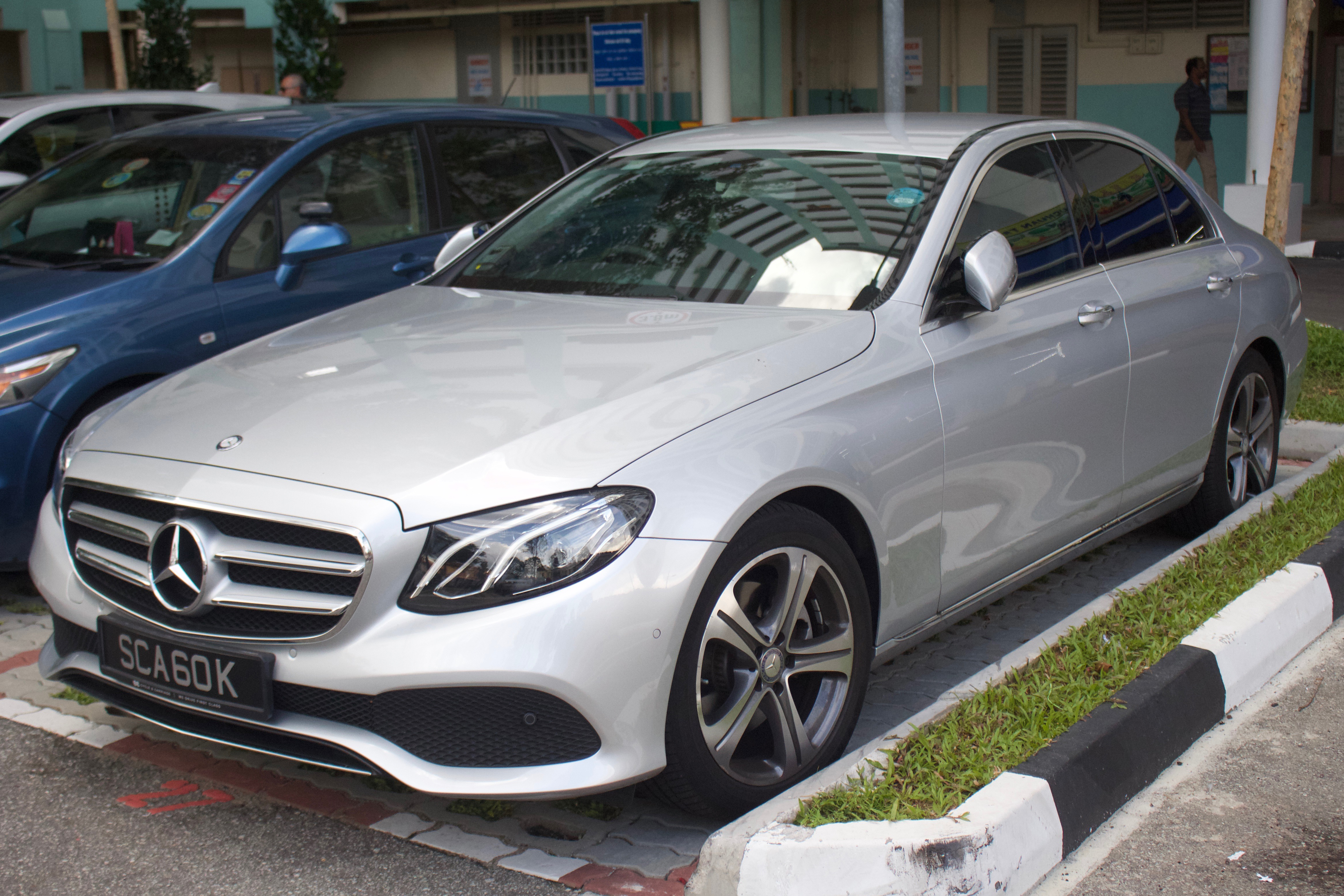 2017 Mercedes-Benz E 200 (W 213) sedan. Photographed in Singapore.